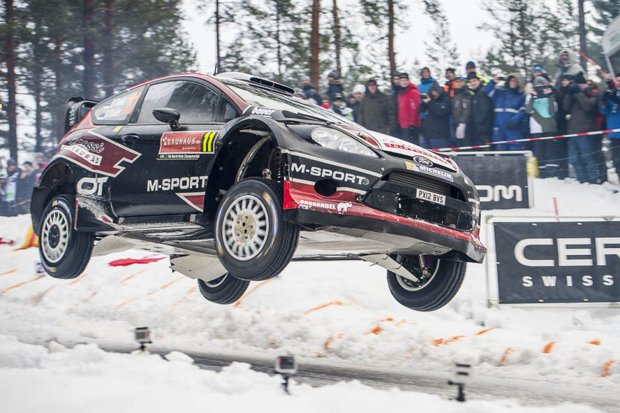 Rally Sweden 2014 Colin's Crest Arena,Ford Fiesta RS WRC,M-Sport WRT,M-Sport World Rally Team,Motorsport,Ott Tänak,Raigo Molder,Rally,Rally Sweden,Rallye,Rallye Schweden,SS19,Vargäsen 1,WP19